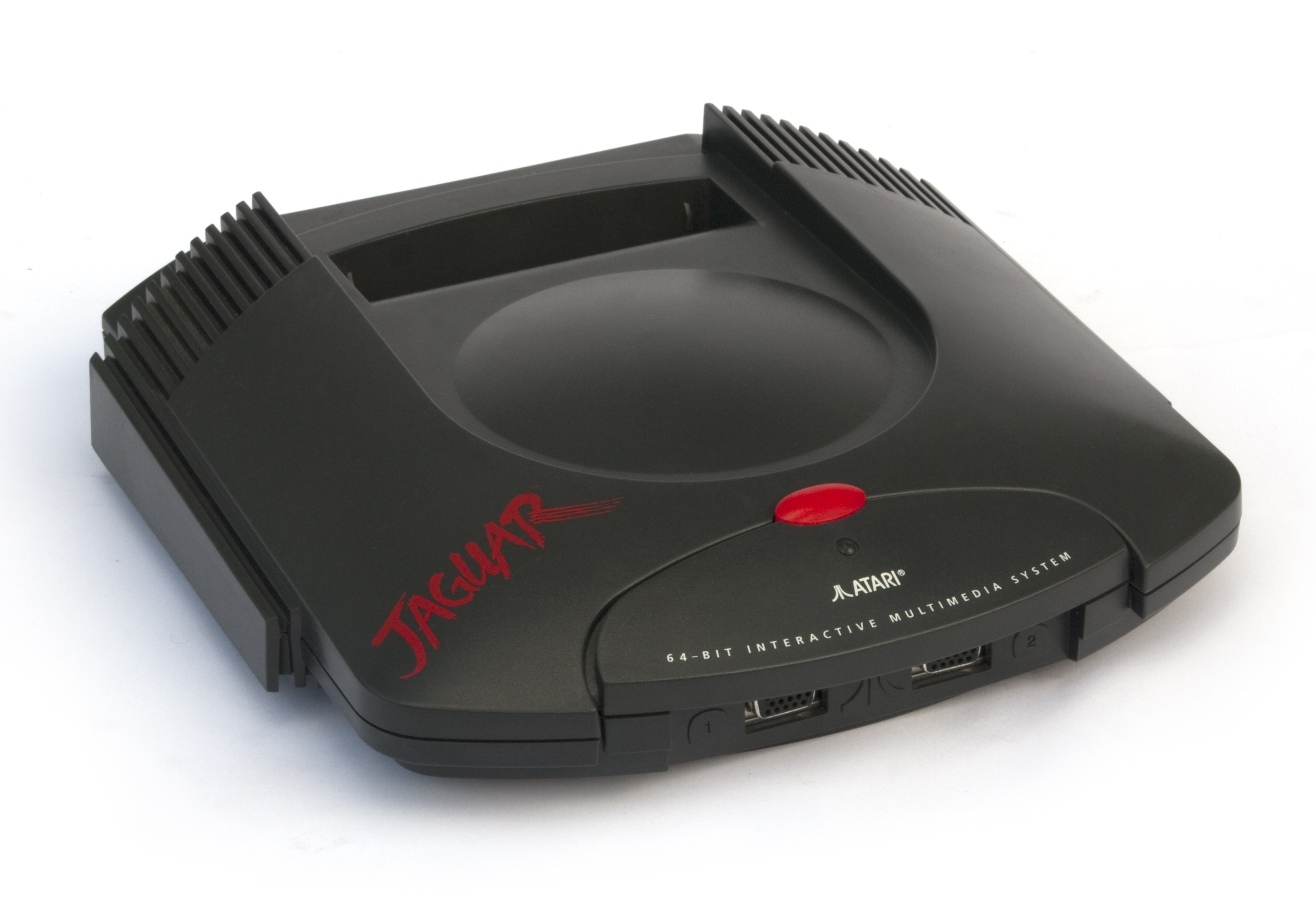 Atari Jaguar console.